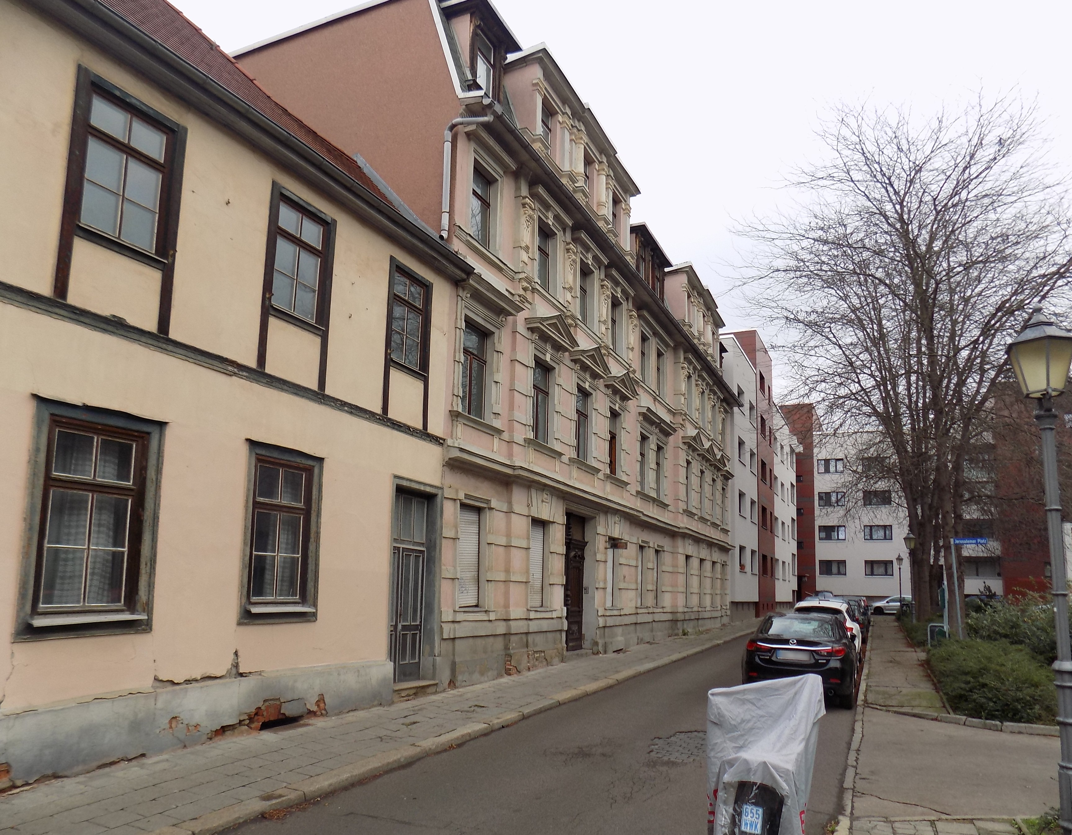 Grosser Berlin street in Halle/Saale (Saxony-Anhalt)